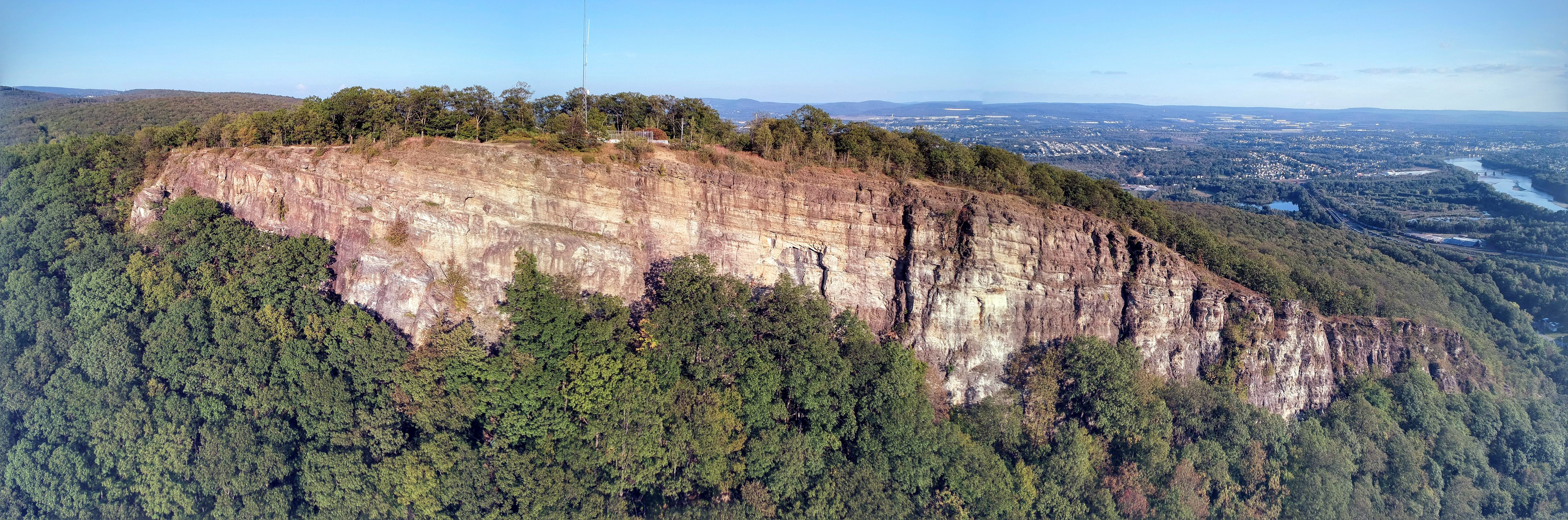 Ariel Pano of Campbell's Ledge